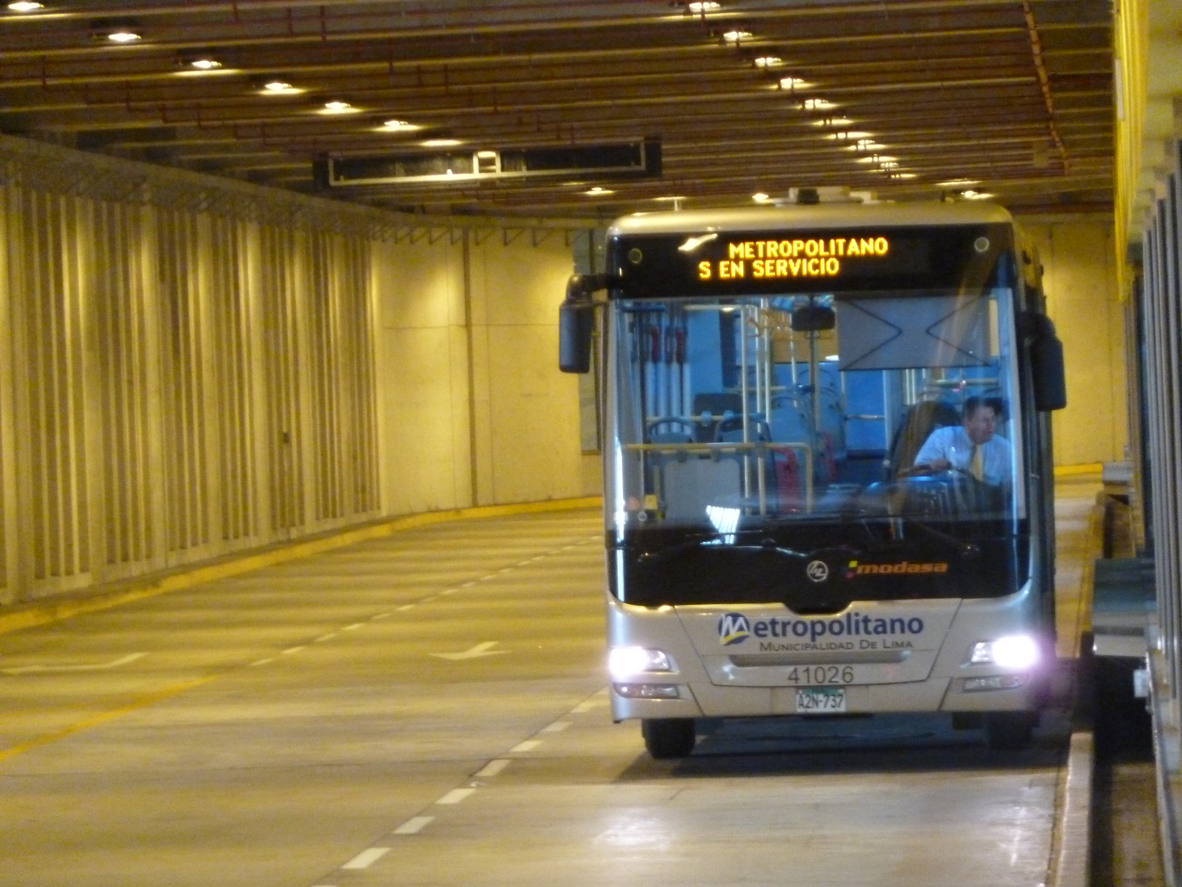 Photos of Lima's new north-south rapid bus service, the Metropolitano.